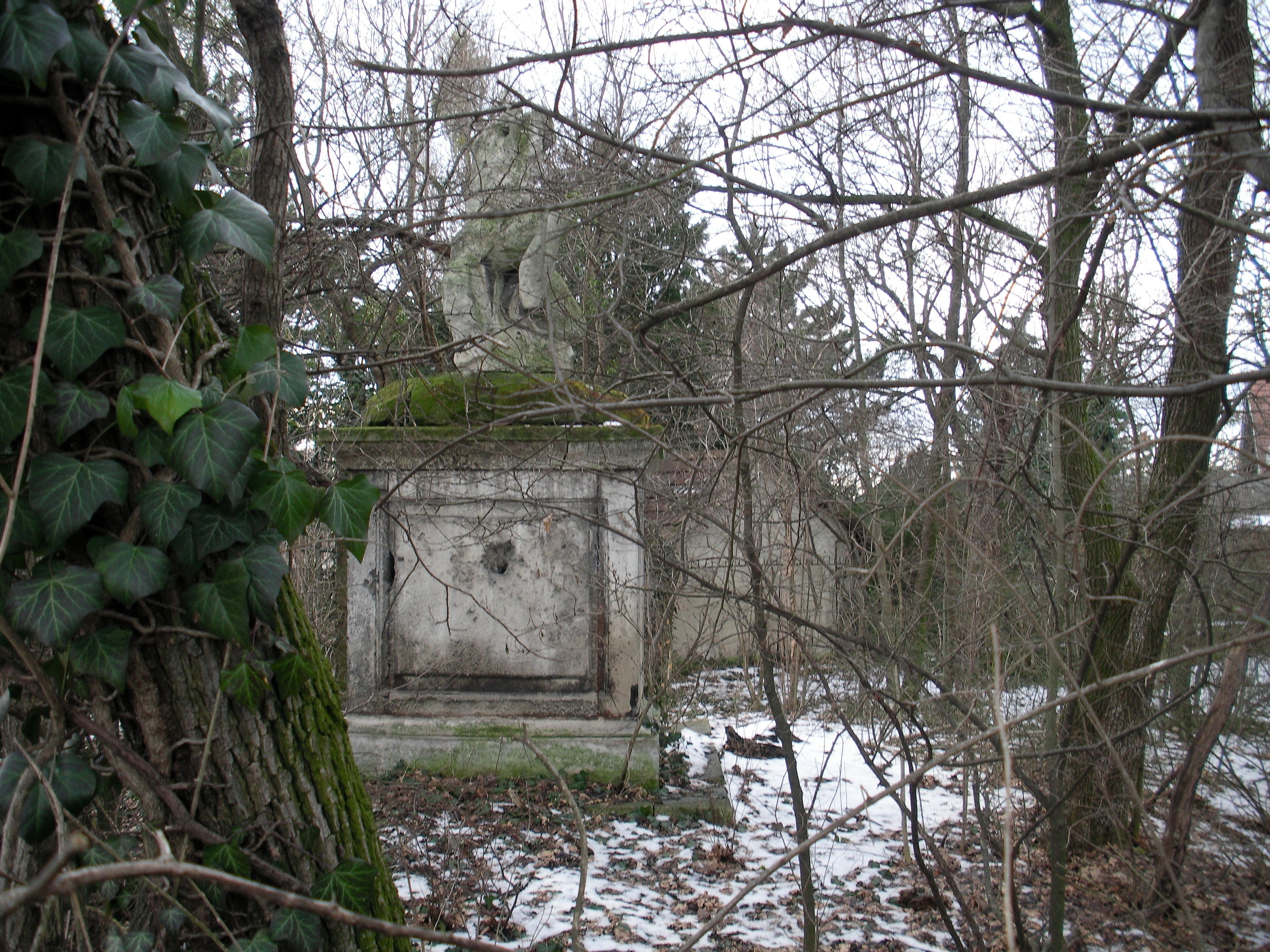 Forgotten memorial in Palace of Alterlaa Vienna.